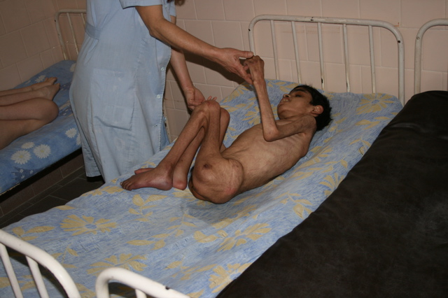 Vaska from the documentary "Bulgaria's Abandoned Children"